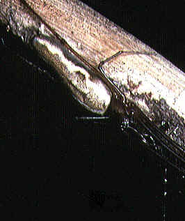 female Tetragnatha praedonia from Okinawa.